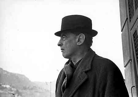 Witold Gombrowicz in Vence.